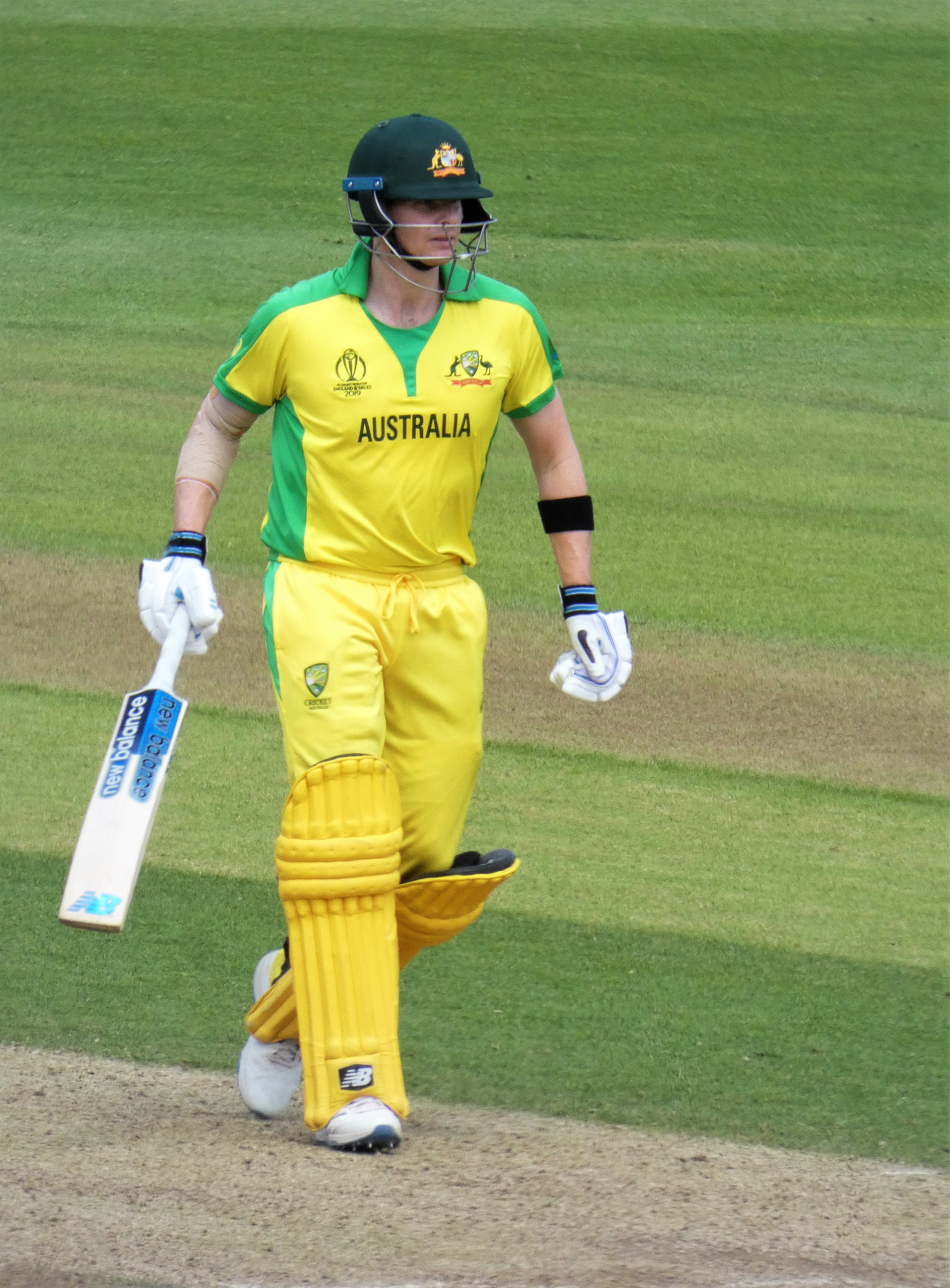 Australia's Steve Smith at the World Cup match at Trent Bridge on 6 June 2019